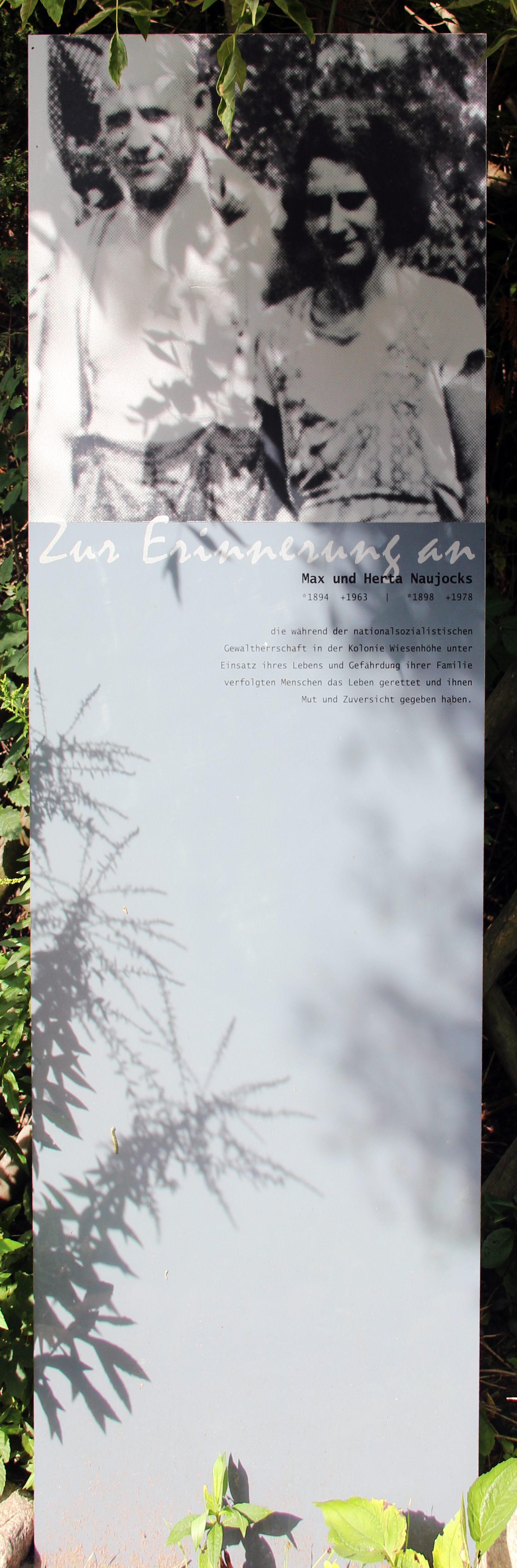 Memorial plaque, Max Naujocks and Herta Naujocks, Wartenberger Weg 21, Berlin-Malchow, Deutschland